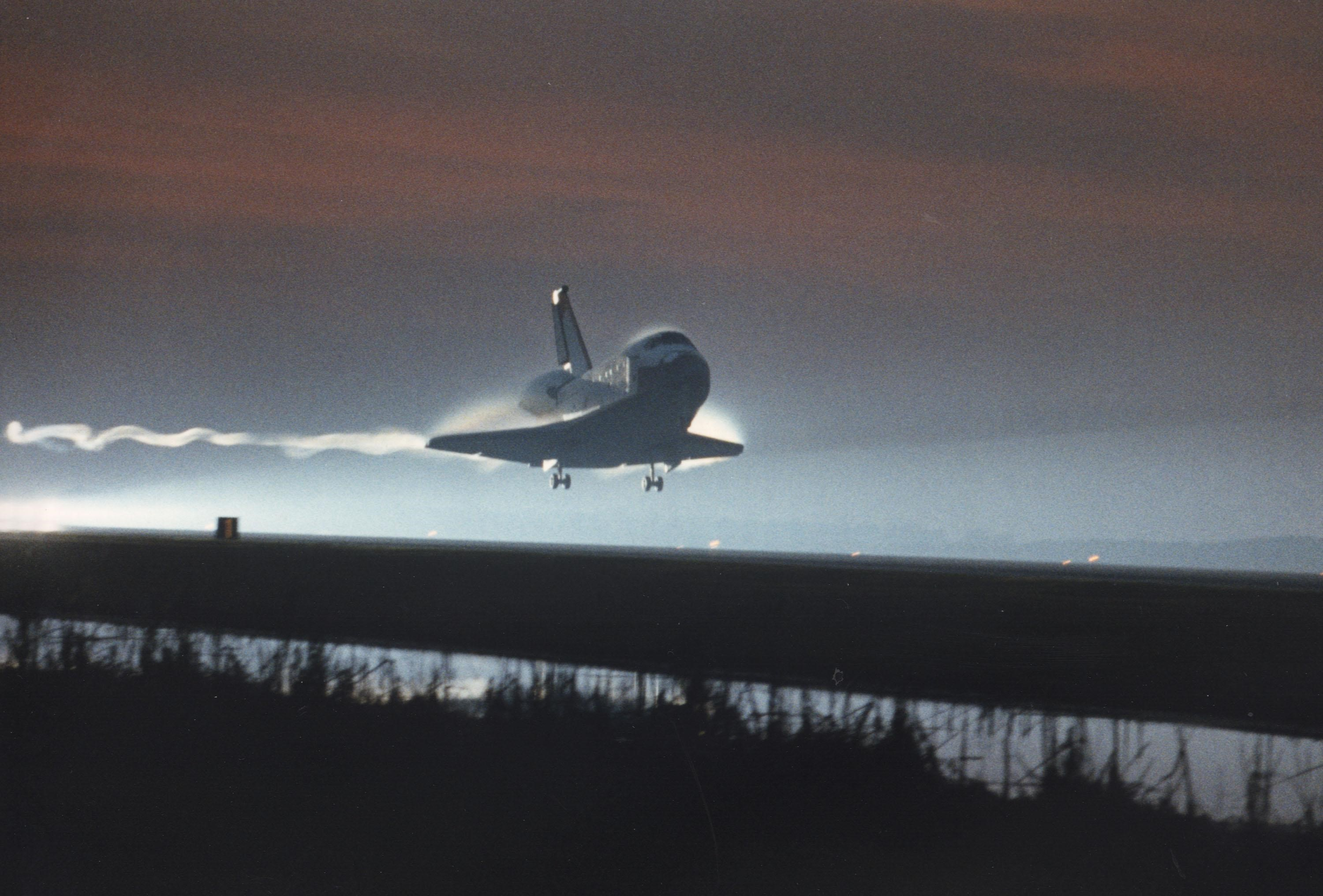 Space Shuttle Columbia landing, completing STS-80.